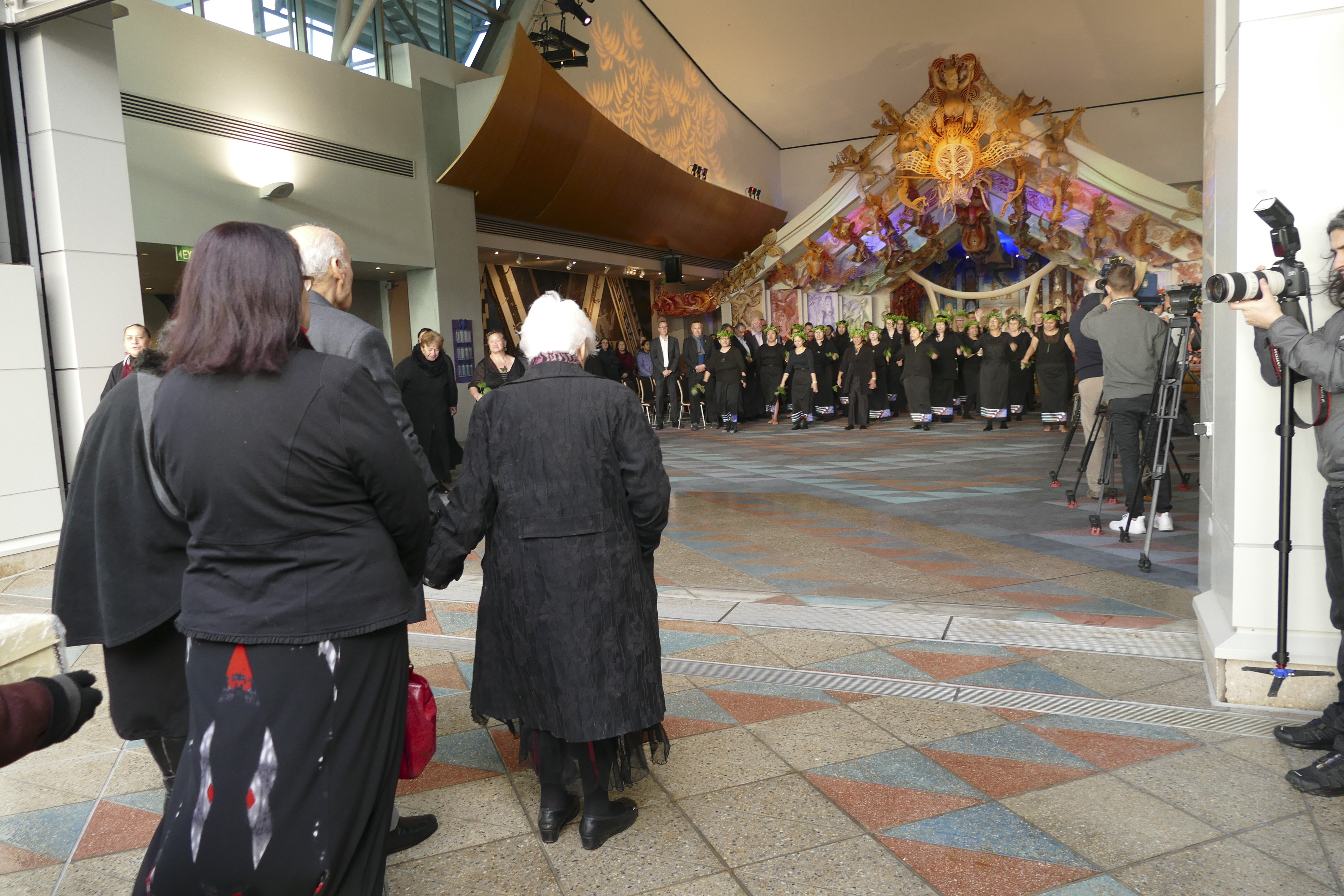 A delegation of Embassy staff participated in a repatriation ceremony at New Zealand’s national museum, Te Papa Tongarewa. The museum leads the Karanga Aotearoa National Repatriation Programme, working with museums around the world to bring home Maori and Moriori skeletal remains that were removed from New Zealand in the 19th Century. The most recent repatriation included 16 items from United States institutions, the deYoung Museum of Fine Arts in San Francisco and the Yale Peabody Museum in Massachusetts, as well as one item from a museum in Germany. The remains were welcomed back to New Zealand in a formal powhiri (Maori welcome ceremony) comprising speeches and singing. Embassy staff were invited to be pall bearers for the service, carrying the ancestral remains, in conservation boxes, onto Te Papa’s marae. Public Affairs Officer Dolores Prin led the Embassy delegation and spoke about New Zealand’s and the United States’ shared cultural values around preservation of heritage, and strong people to people ties.